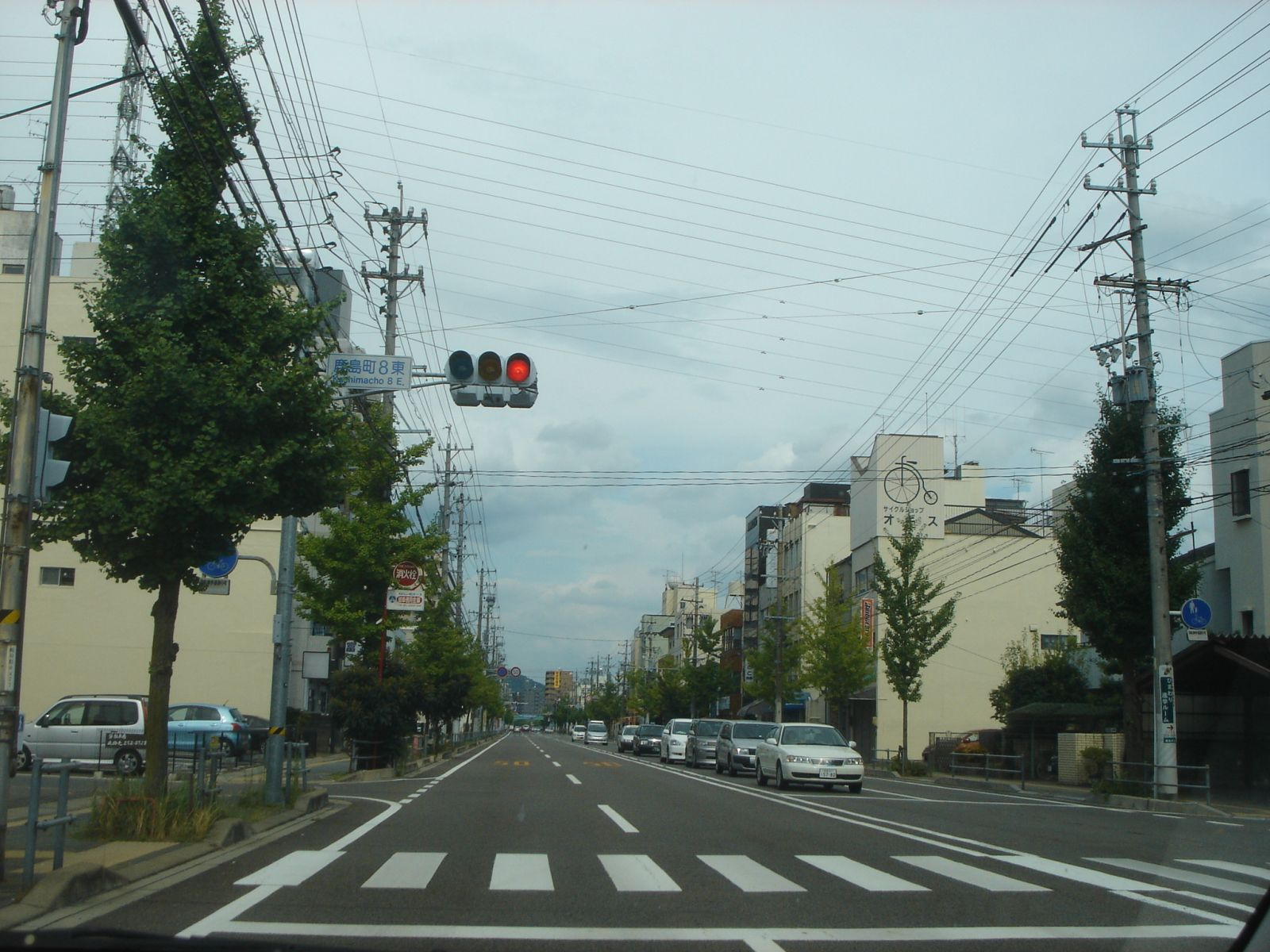 Gifu Prefectural Road 92